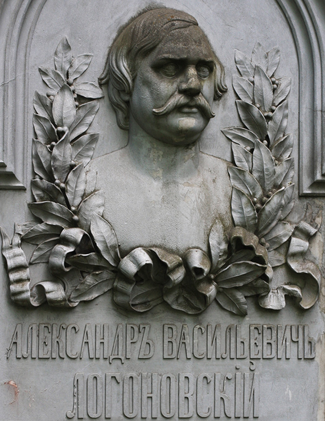 Sculpture of Loganovsky on his tomb and the Vagankovskoe cemetery in Moscow